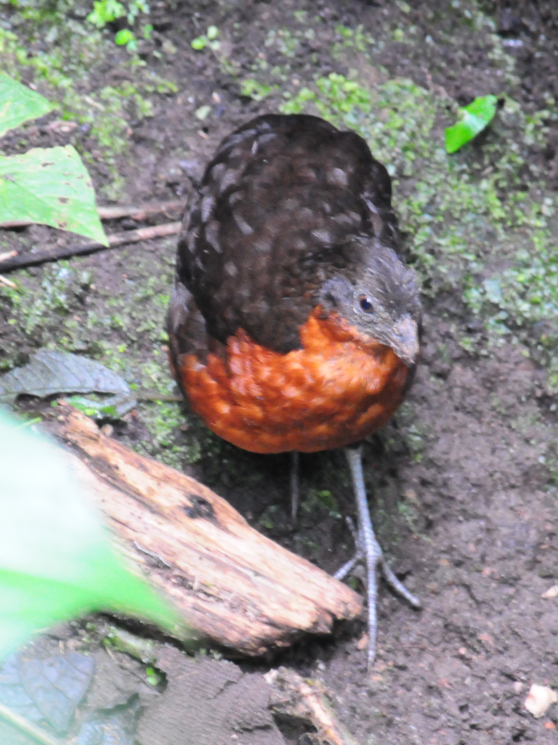 A Dark-backed Wood Quail in Mindo, Ecuador.